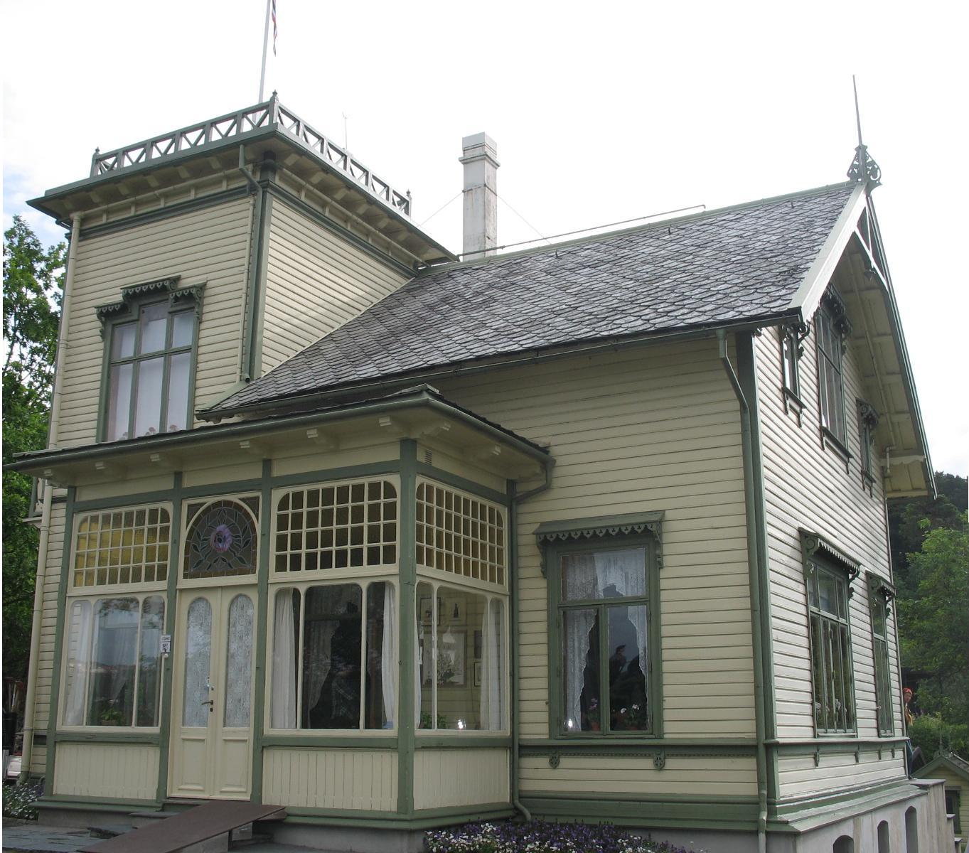 The house of Edvard Grieg, Norway